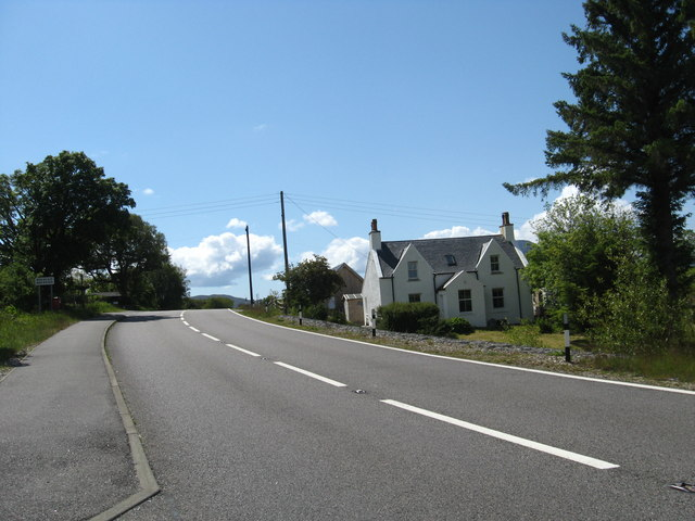 House at the side of the A87 near Breakish